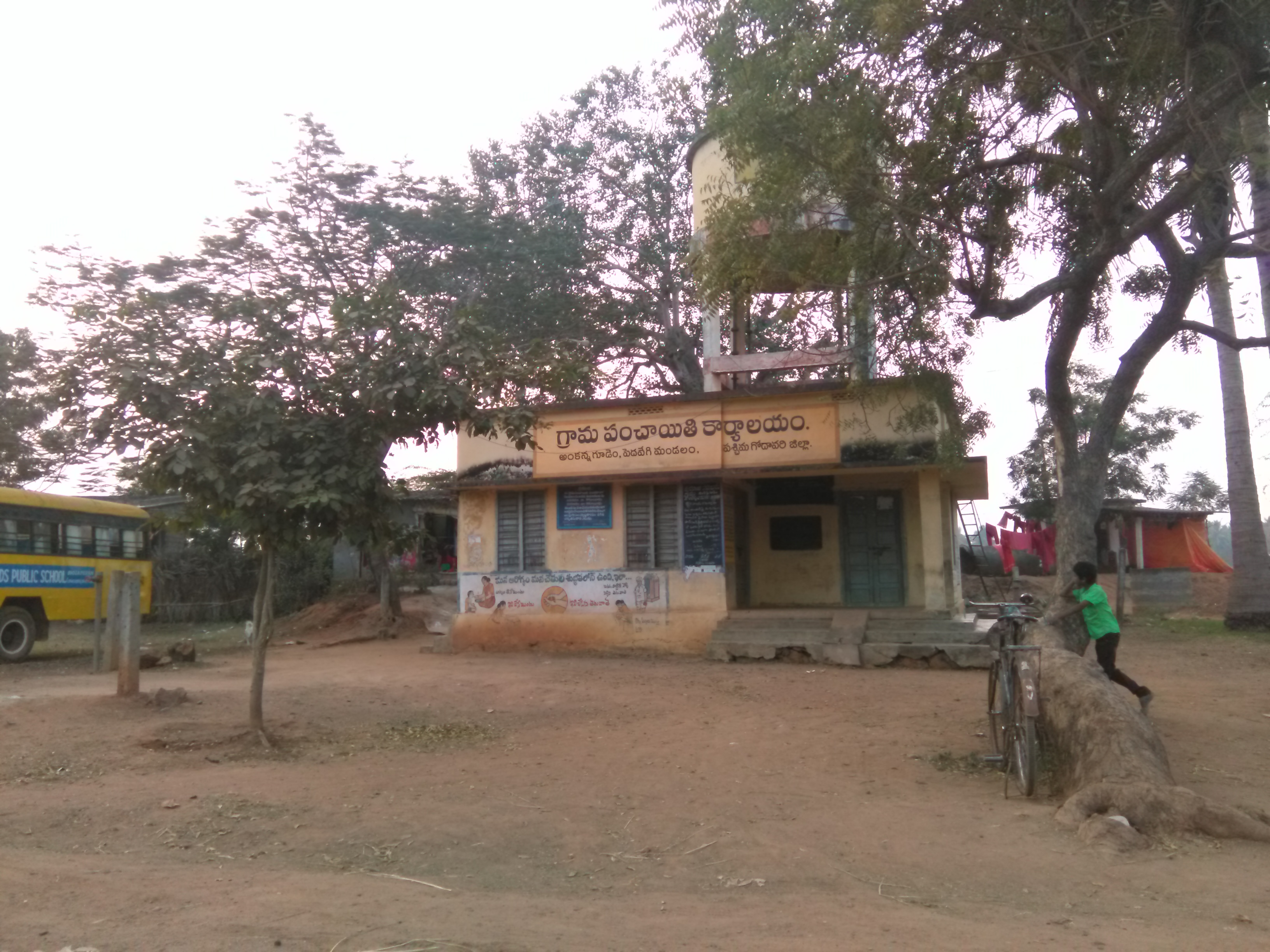 A.P Village of Ankanna Gudem, Pedavegi Mandal